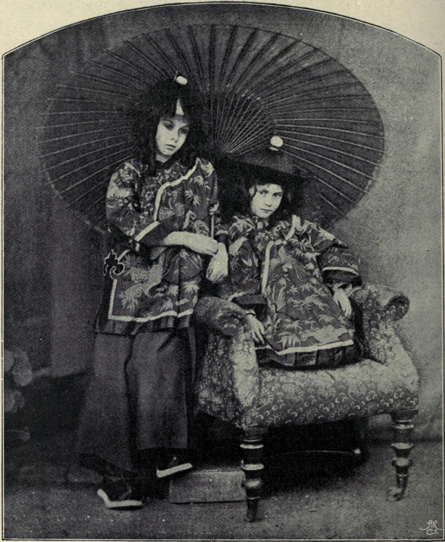 Lorina and Alice Liddell posing in "Chinamen" fashion